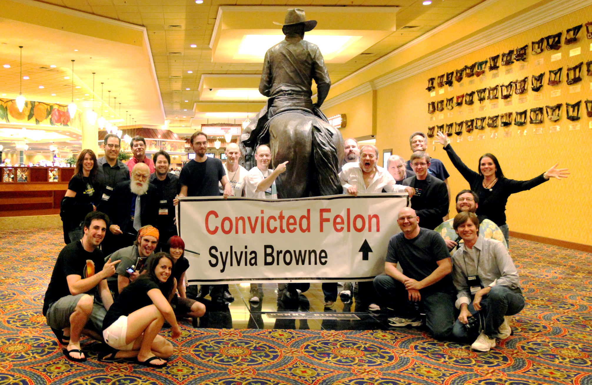 Sylvia Browne protest led by mentalist Mark Edward TAM 2012